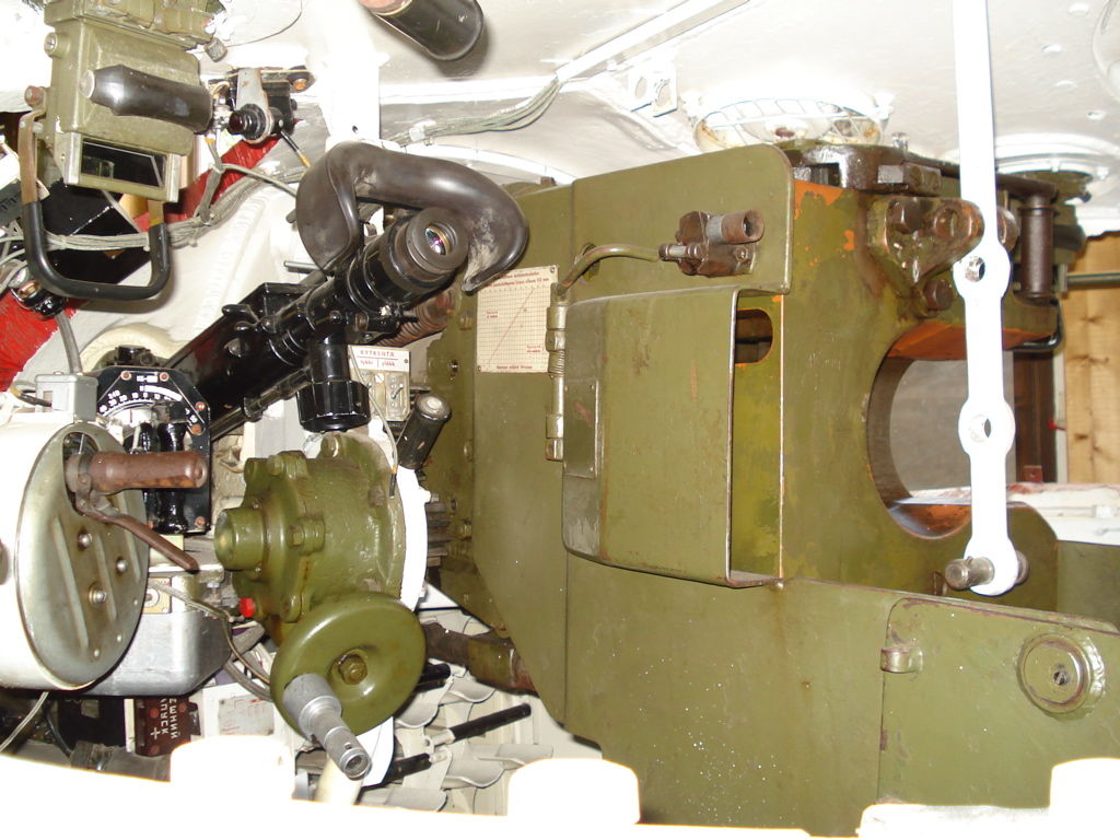 Russian T-54 tank, used by Finland. This model was cut open in for training purposes. Various systems of the tank have been illustrated with different colors. This view shows the main gun and the optical equipment of the gunner. Finnish Tank Museum (Panssarimuseo) in Parola.